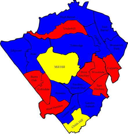 A map of the results of the 2006 London Borough of Barnet Council election. Colour legend by wards won: Conservative party Labour party Liberal Democrat